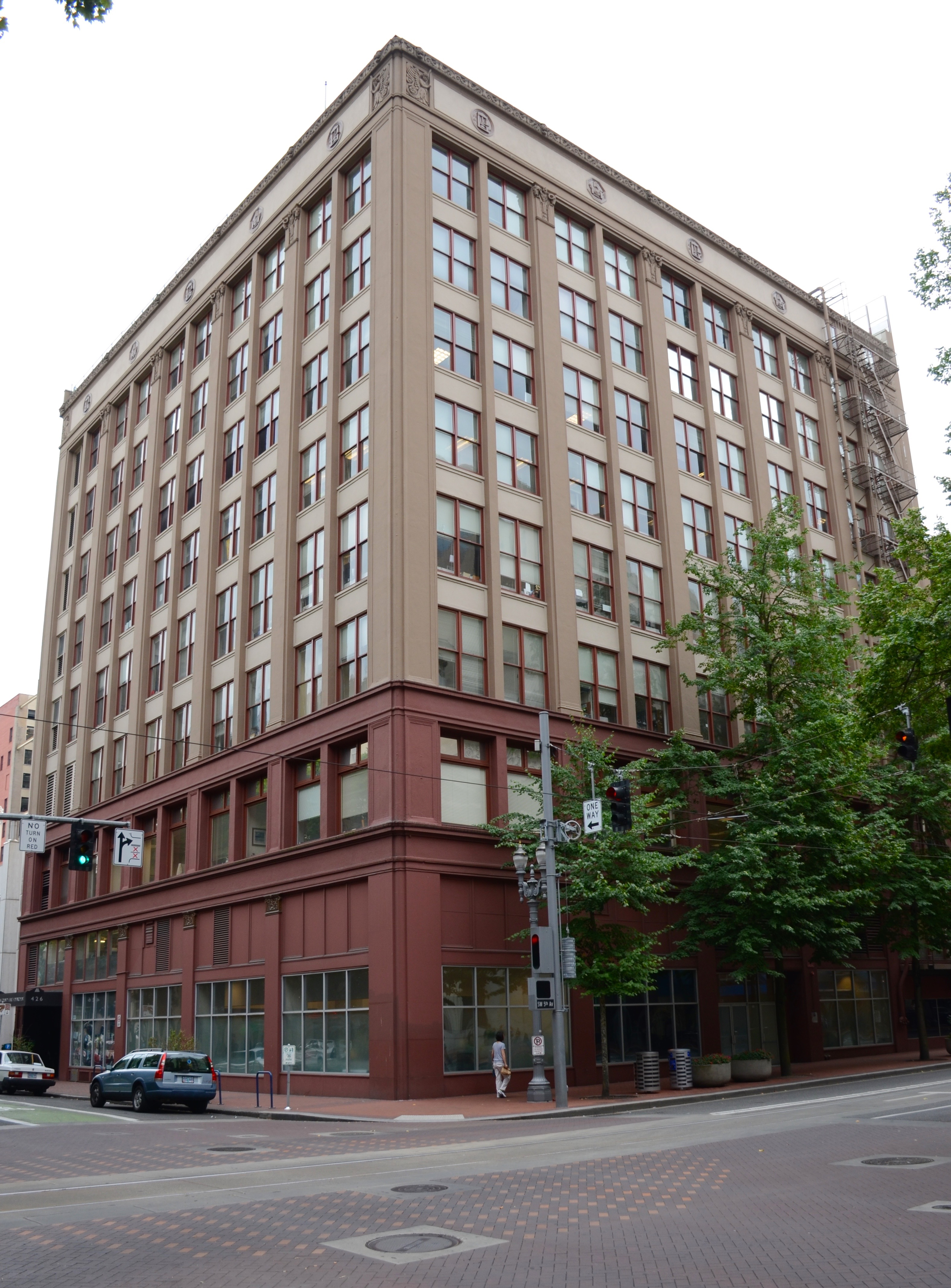 The historic J.K. Gill Building in downtown Portland, Oregon, viewed from across the intersection of SW 5th & Stark. The building has been owned by Multnomah County since 1988 and is currently known as the Gladys McCoy Building.